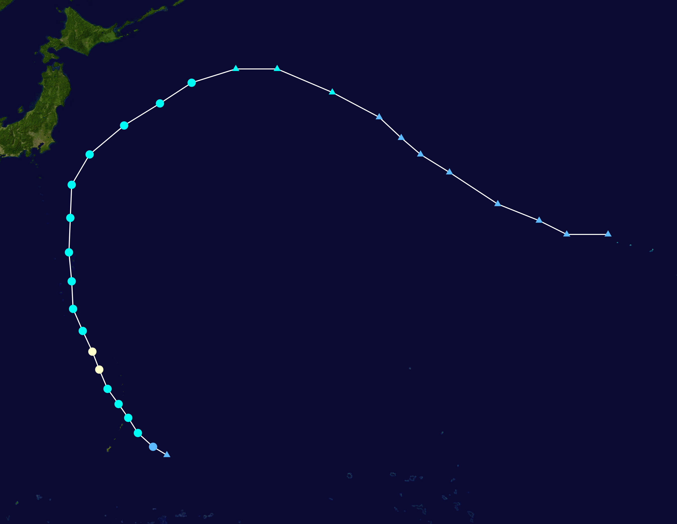 Track map of Typhoon Virginia of the 1965 Pacific typhoon season. The points show the location of the storm at 6-hour intervals. The colour represents the storm's maximum sustained wind speeds as classified in the Saffir-Simpson Hurricane Scale (see below), and the shape of the data points represent the nature of the storm, according to the legend below. Saffir–Simpson hurricane wind scale Tropical depression≤38 mph≤62 km/h Category 3111–129 mph178–208 km/h Tropical storm39–73 mph63–118 km/h Category 4130–156 mph209–251 km/h Category 174–95 mph119–153 km/h Category 5≥157 mph≥252 km/h Category 296–110 mph154–177 km/h Unknown Storm typeTropical cycloneSubtropical cycloneExtratropical cyclone / Remnant low / Tropical disturbance